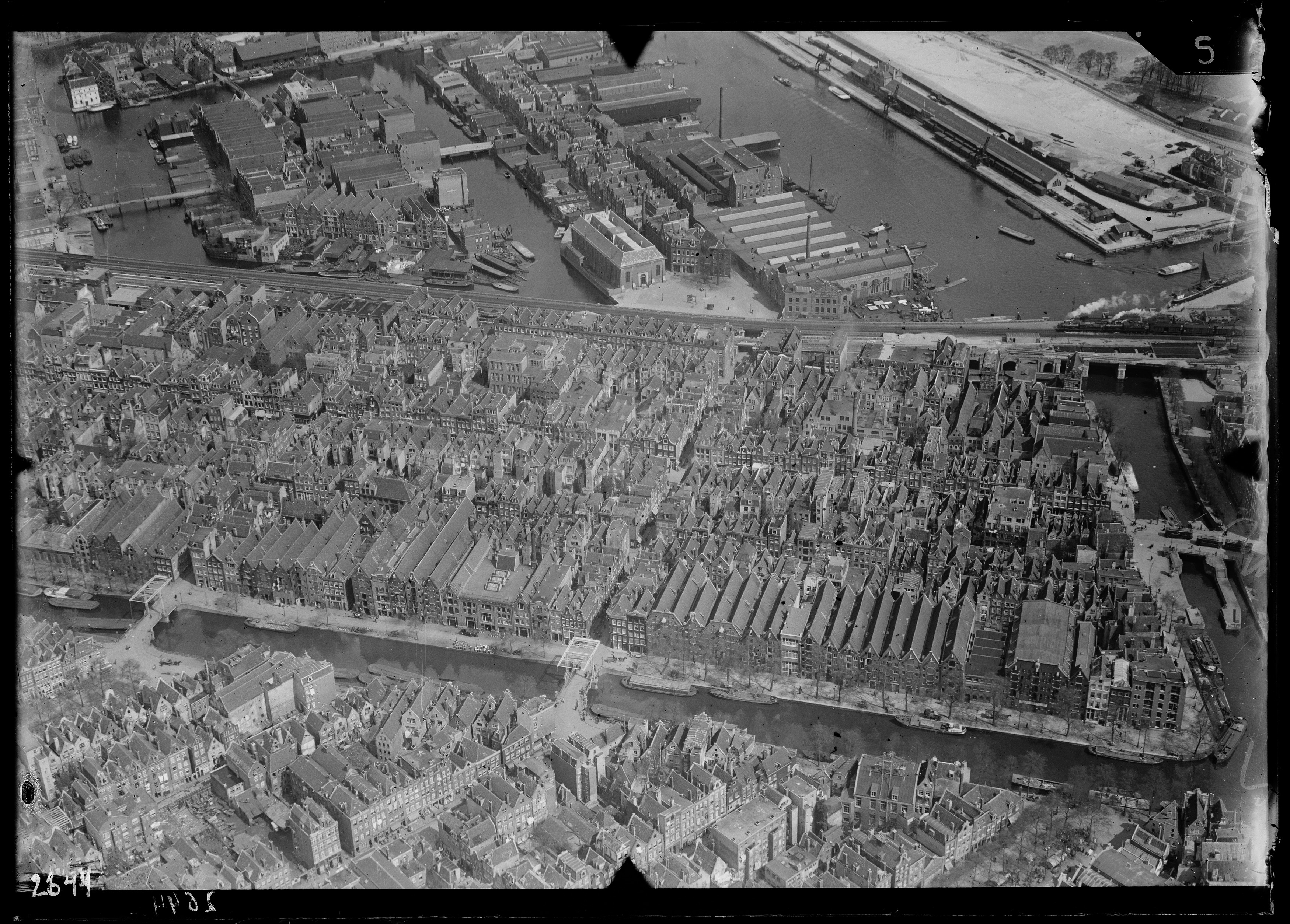 Aerial photograph of Amsterdam, The Netherlands